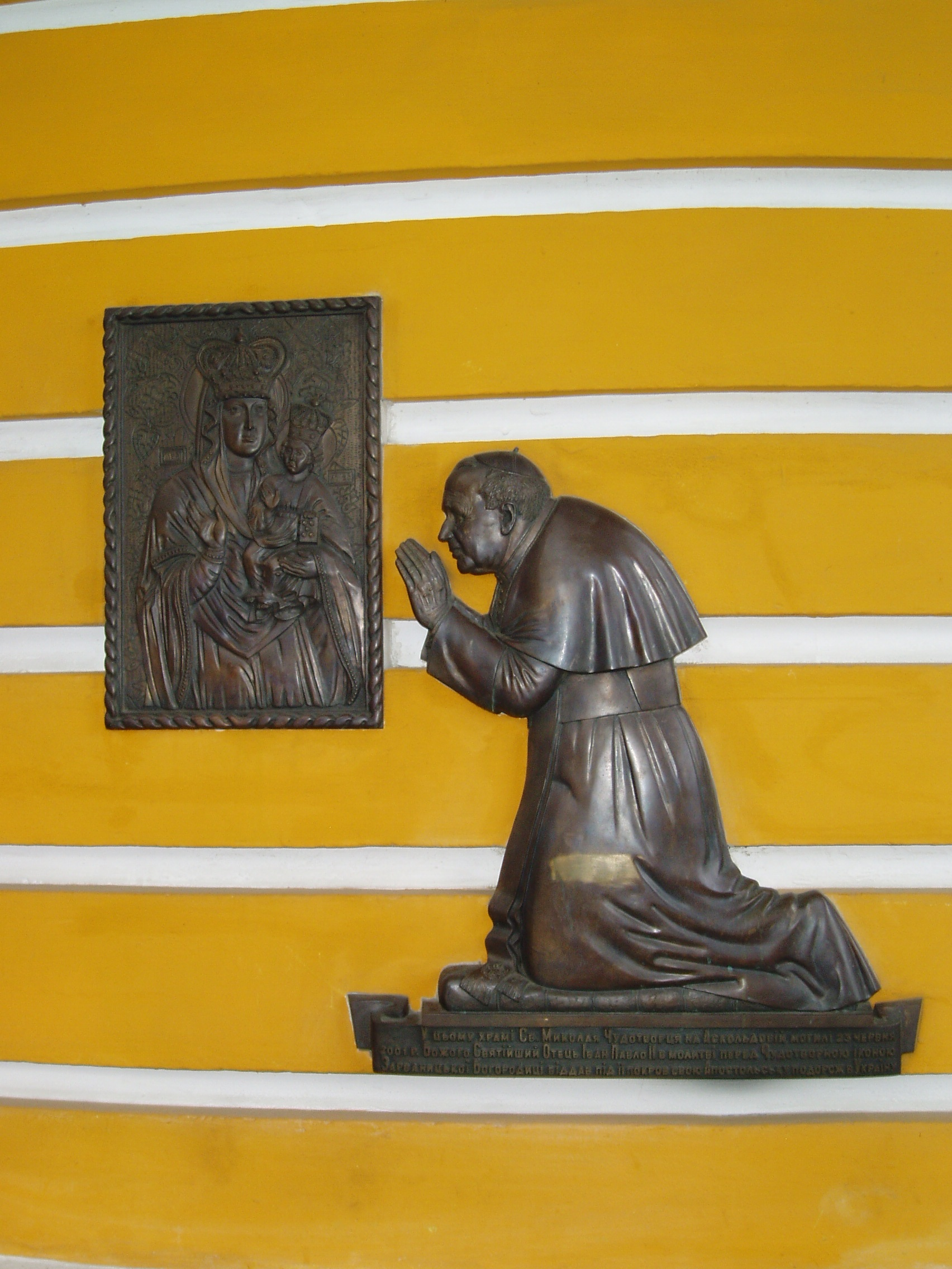 A memorial board, honoring Pope John Paul II in Kyiv